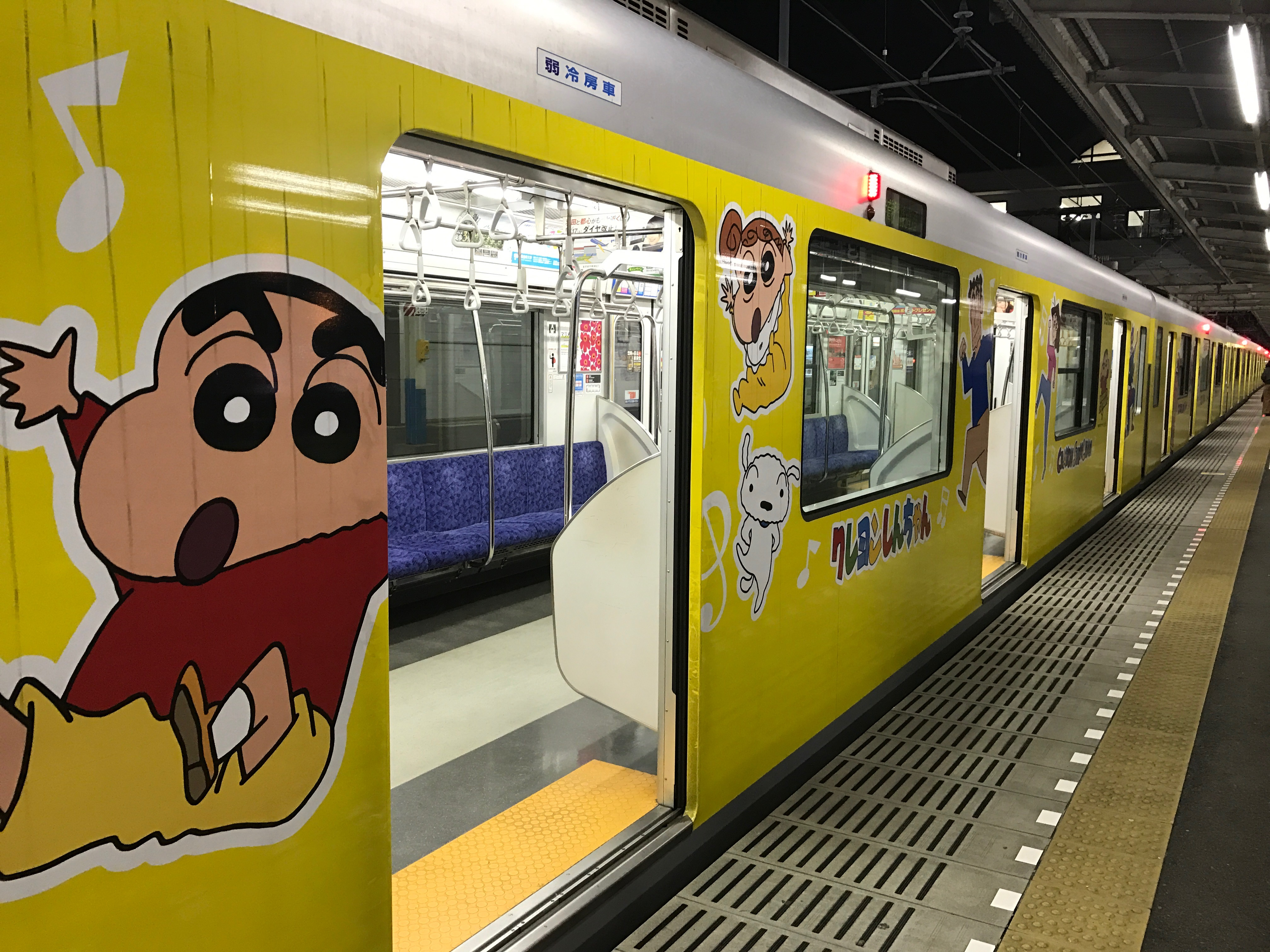 Tobu 50050 series set 51055 in special Crayon Shin-chan vinyl wrapping livery at Kurihashi Station